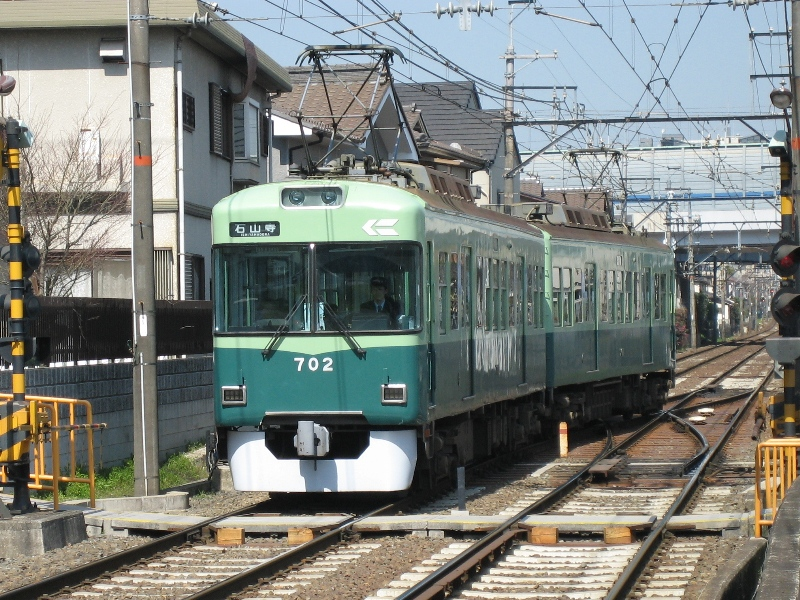 Keihan Electric Railway 700 series EMU set 701 arriving at Ishiyamadera Station